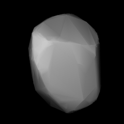 3D convex shape model of 328 Gudrun, computed using light curve inversion techniques. J. Hanuš, J. Ďurech, M. Brož, B. D. Warner (June 2011). "A study of asteroid pole-latitude distribution based on an extended set of shape models derived by the lightcurve inversion method". Astronomy and Astrophysics 530: A134. ISSN 0004-6361. arXiv